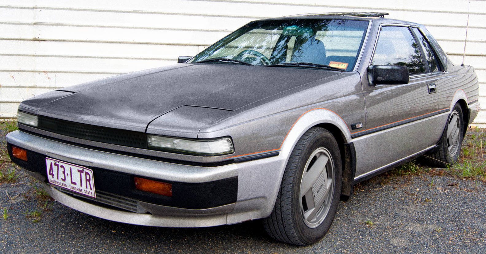 1984 Nissan Gazelle (S12) SGL coupe. Photographed in Australia. Vehicle registration enquiry resultsJurisdictionQueenslandRegistration473LTRChassis codeQ991PHH Year of manufacture1984